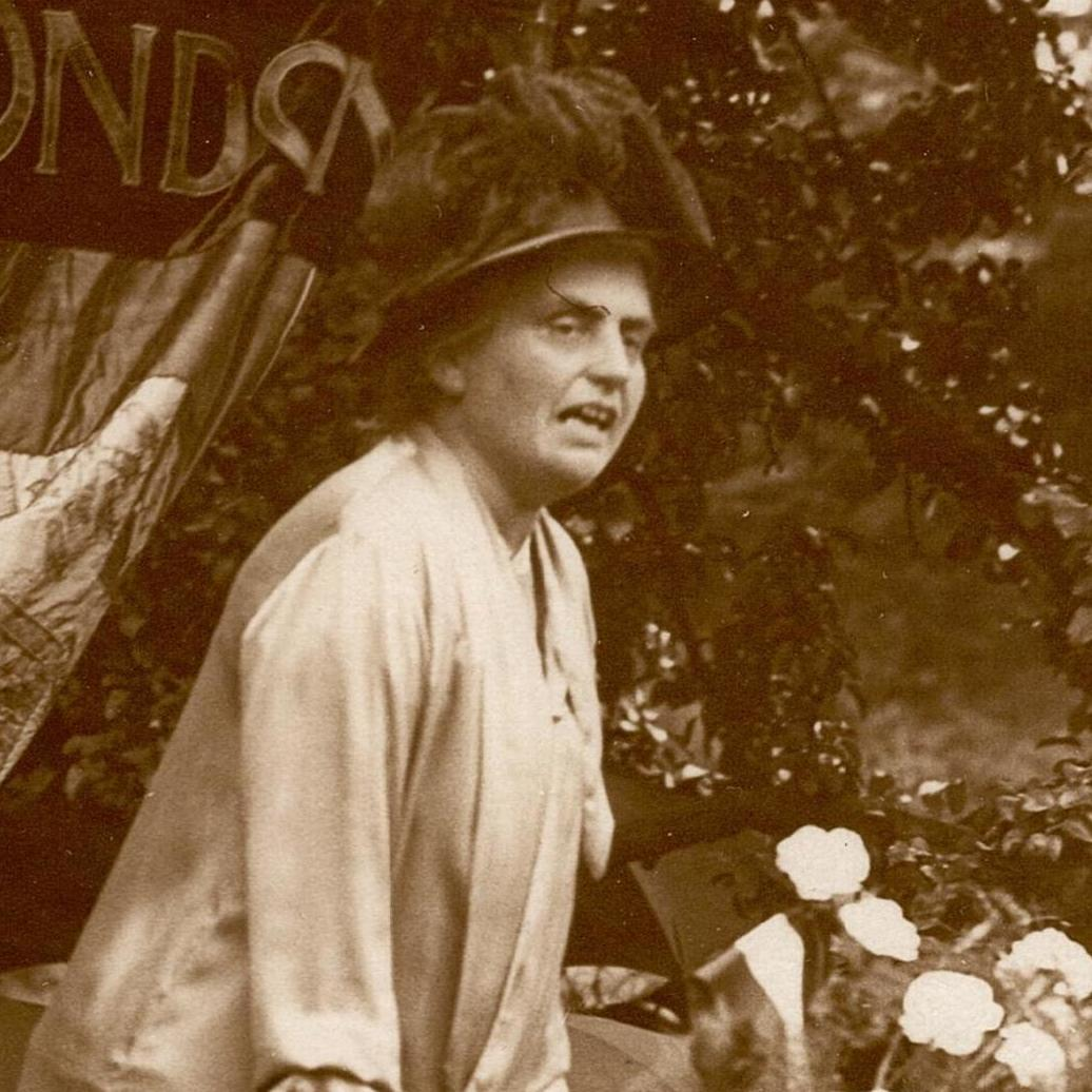 Eleanor Rathbone 1906 - 1914 so lets guess 1910 TWL 2002 47